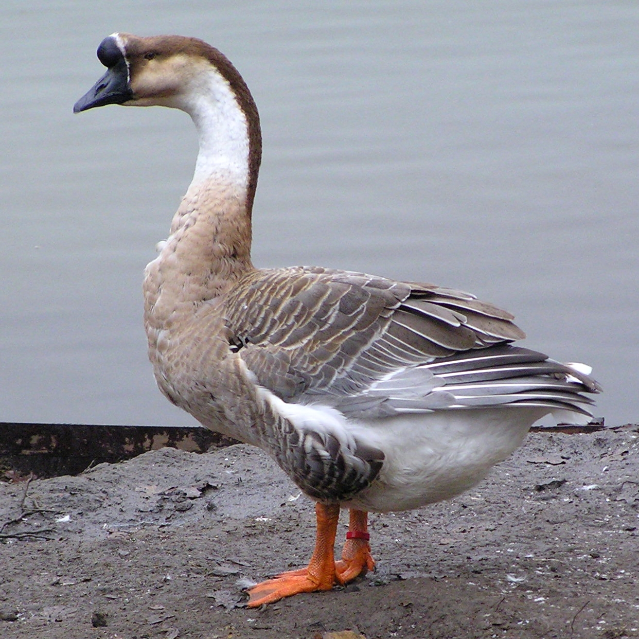 domesticated form of the swan goose Anser cygnoides, in german called "Höckergans" (lit. "bump goose")